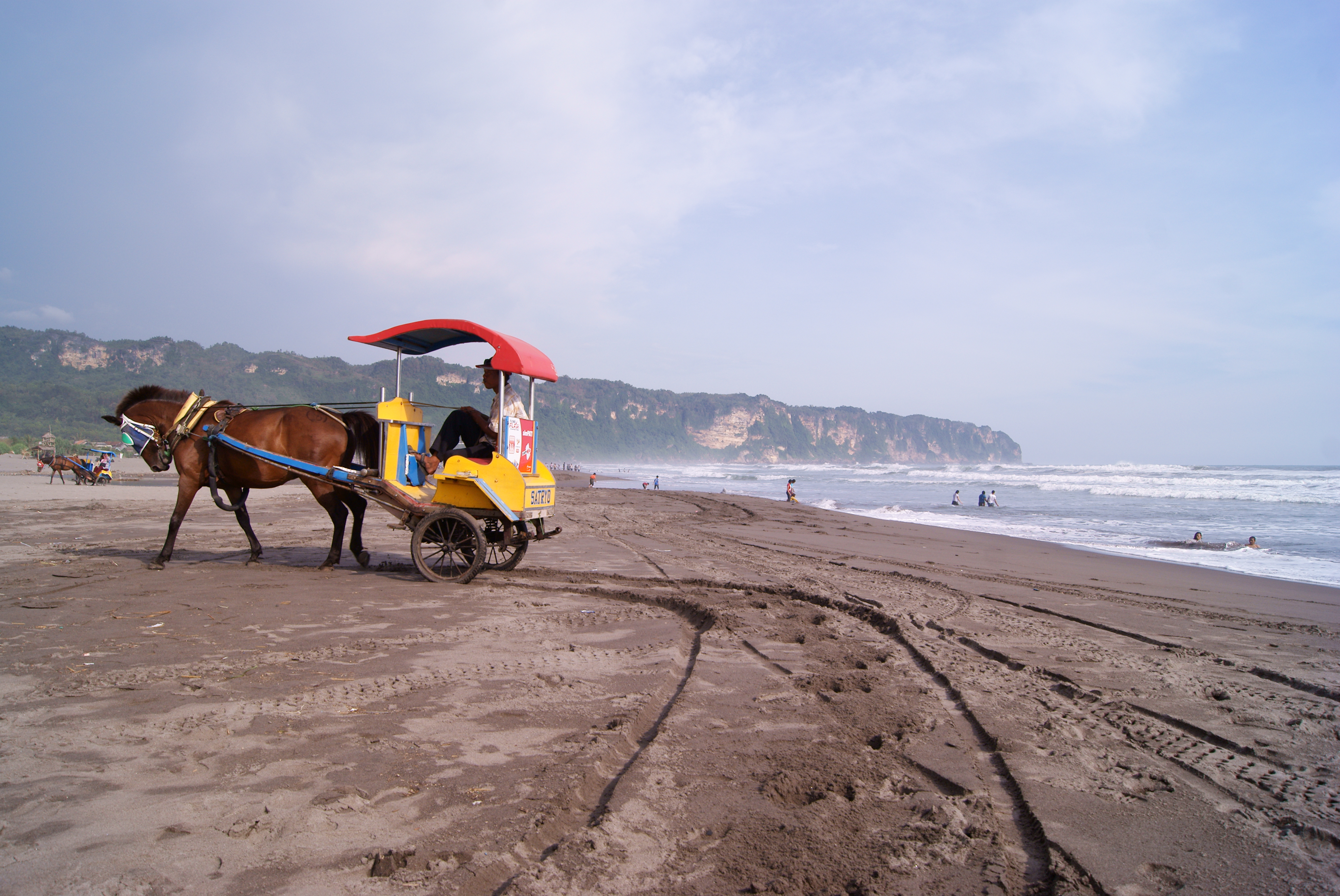 Parangtritis Beach, Yogyakarta, Indonesia